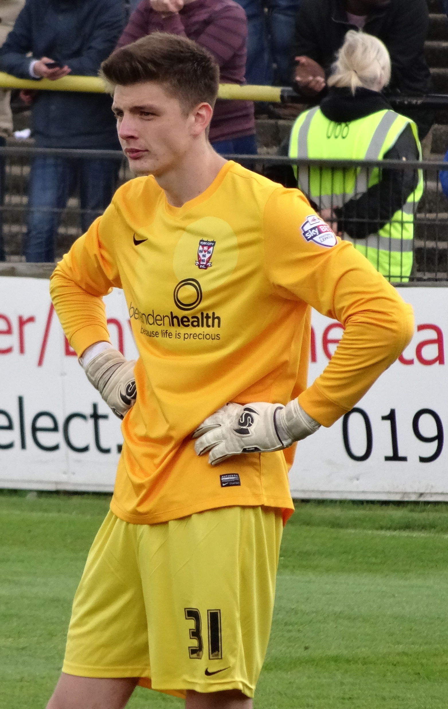 Nick Pope playing for York City against Newport County at Bootham Crescent, York on 26 April 2014